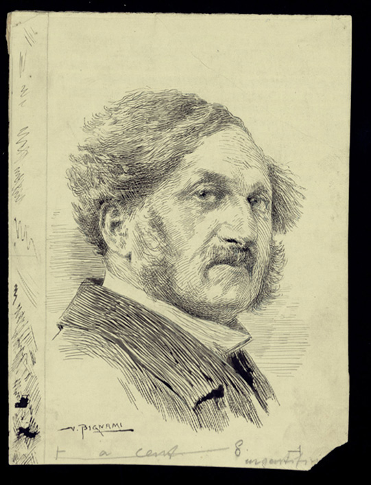 Portrait of Enrico Panofka, composer (1807-1887), before 1929.